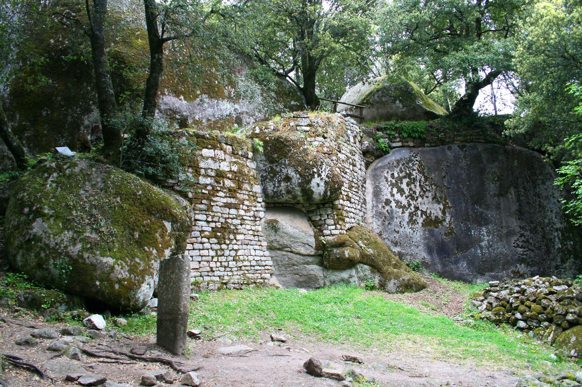 Levie France (Corse-du-Sud), the ruins of the Capula castle. Walon: Levie France (Corse-do-Sud), lès rwines do tchèstê di Capula.